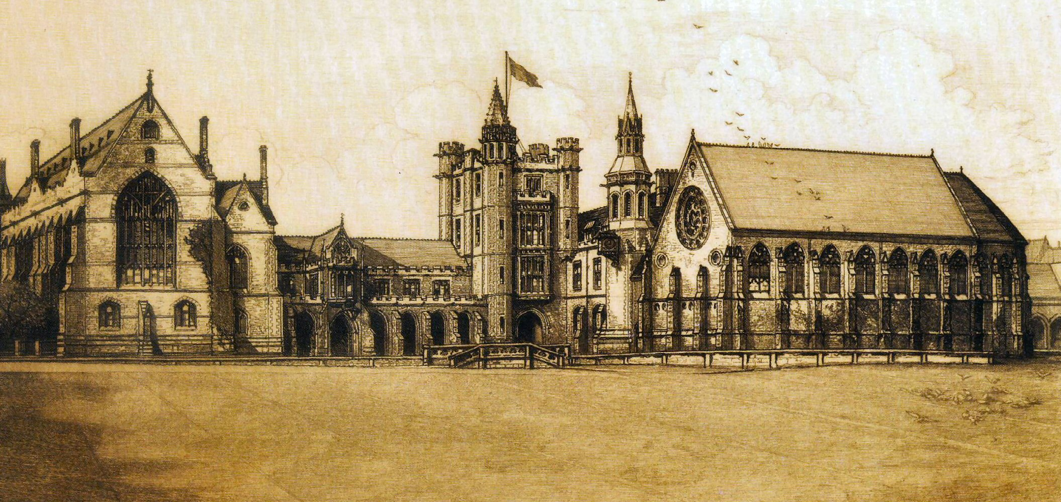 Clifton College close, Bristol.